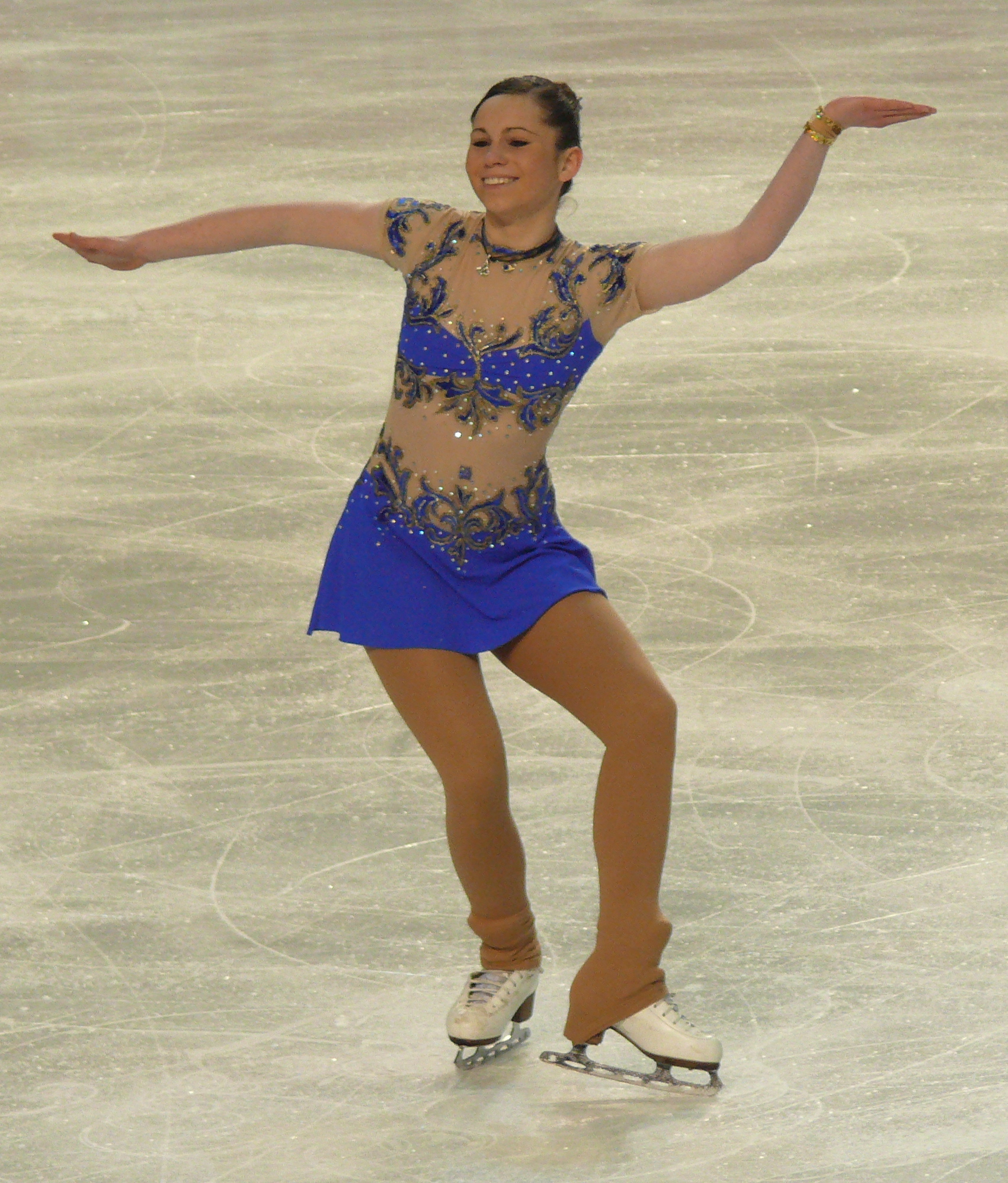 Shira Willner (GER) at her short program at the European Championships 2010 in Tallinn